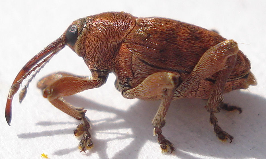 Curculio glandium (Acorn Weevil) from the UK